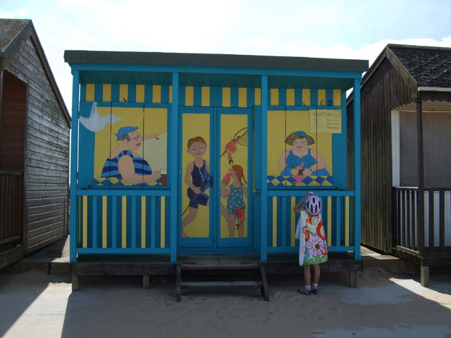 Beach hut on Sandilands foreshore. An amusing but entertaining beach hut. Bit of a postcard! It was in fact the winner in 2007 of the best beach hut as a part of the Bathing Beauties Festival organised for Sutton on Sea and Mablethorpe. [1]